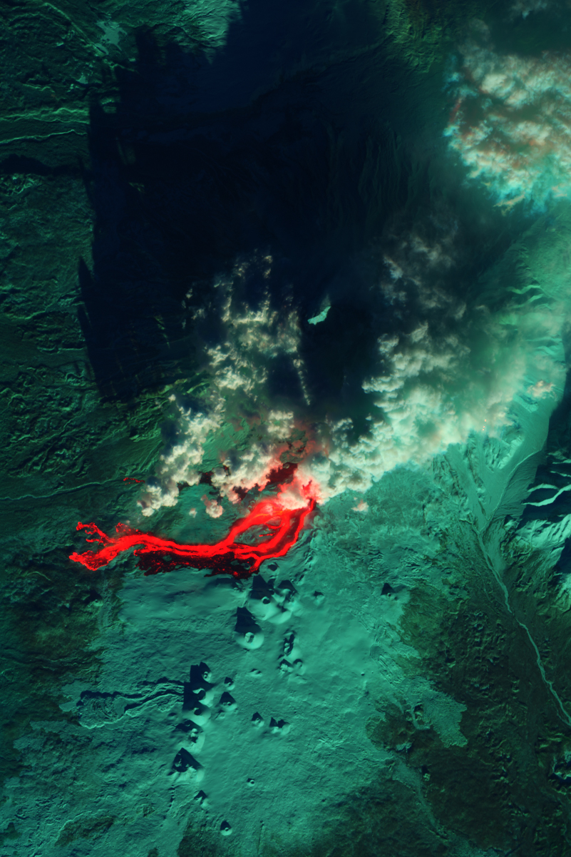 This image is a combination of visible and infrared light. It was captured by the Advanced Land Imager (ALI) on NASA’s Earth Observing-1 (EO-1) satellite captured on December 1, 2012. It shows the eruption of Tolbachik volcano, one of many active volcanoes on Russia’s Kamchatka Peninsula. Tolbachik began erupting in late November 2012, the first time the volcano has been active in 36 years. The image shows volcanic plumes and a lava flow. Parts of the lava flow glow bright red, an indication of high surface temperatures